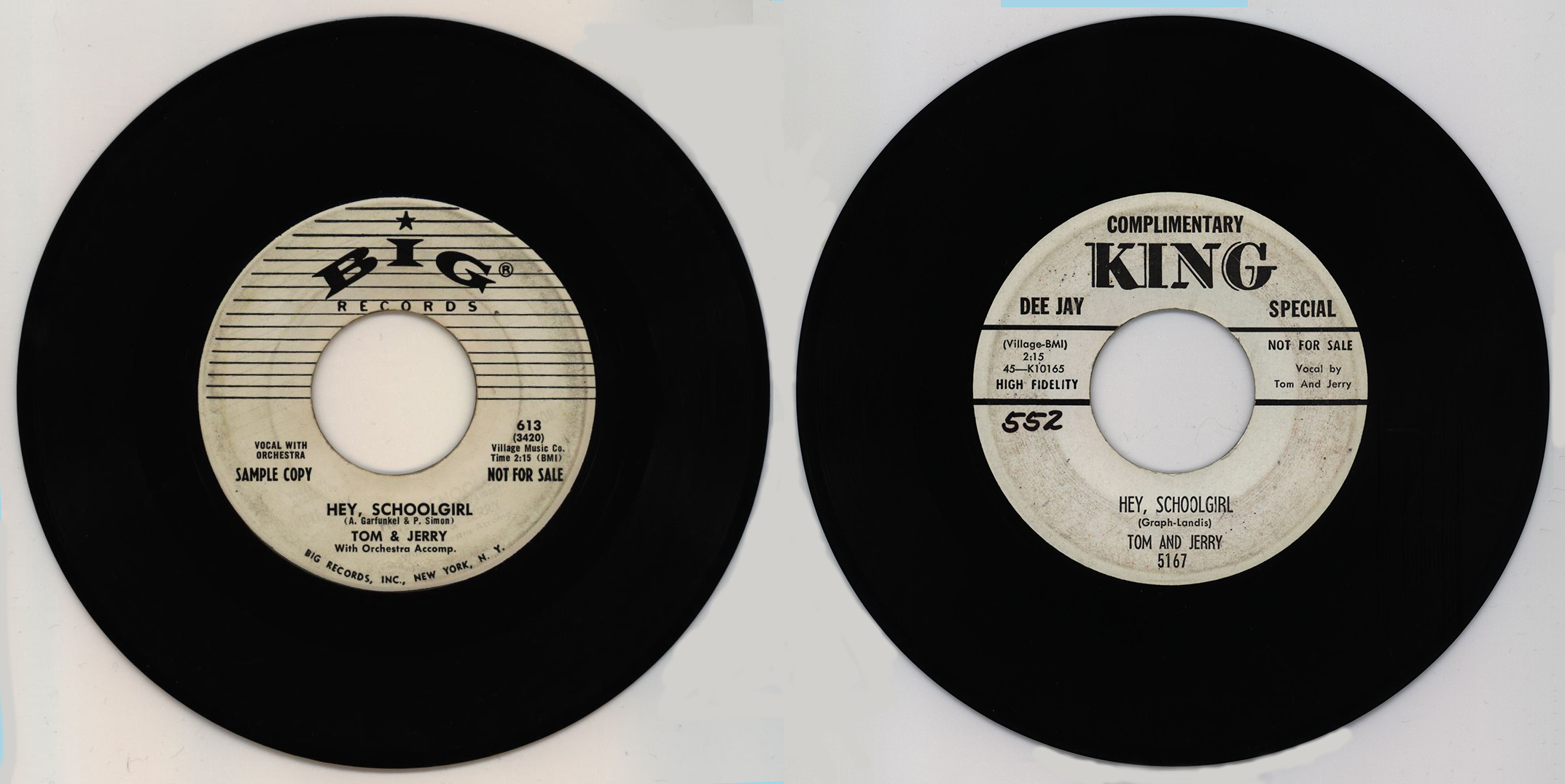 The two releases of "Hey, Schoolgirl," on the Big and King labels in 1957.